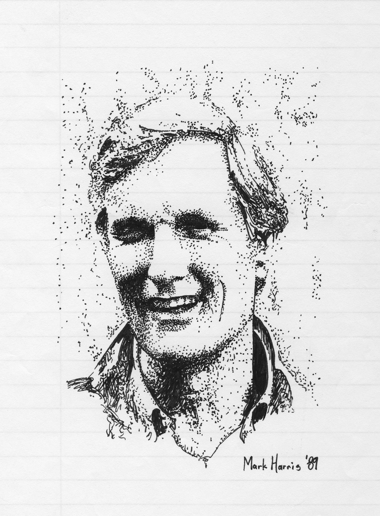 Alan Alda. Felt pen drawing.